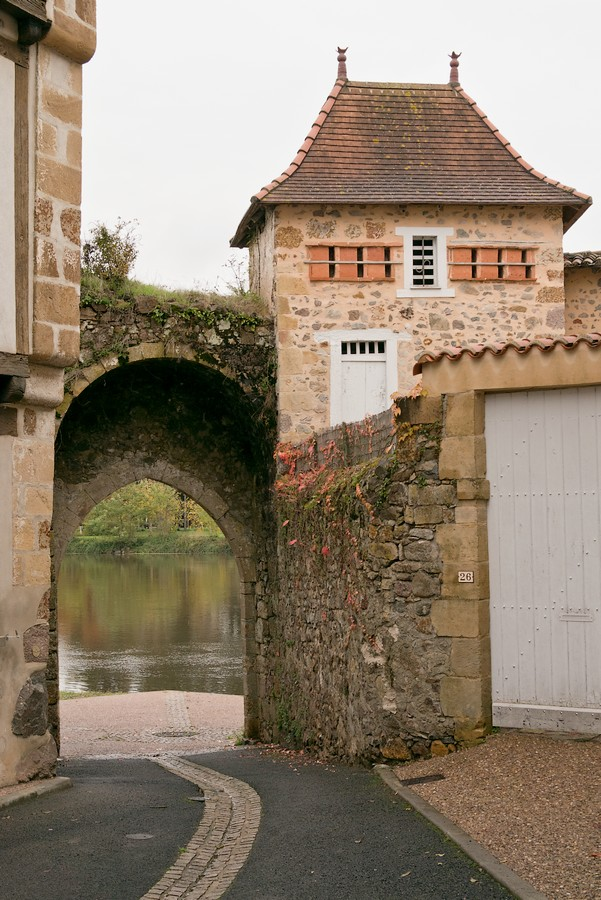 The Vienne at the end of Rue des Cavaliers